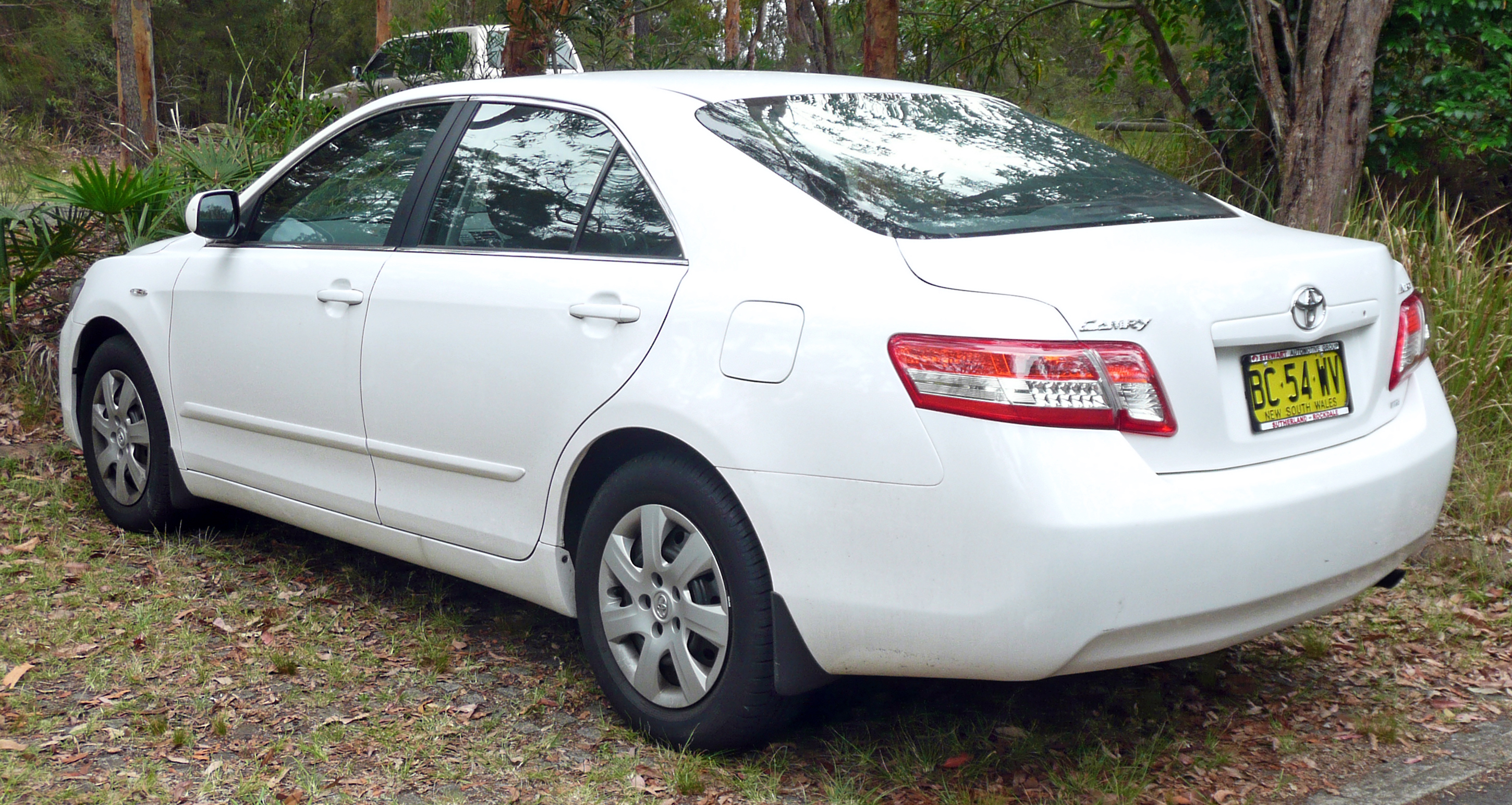 2009 Toyota Camry (ACV40R MY10) Altise sedan. Photographed in Audley, New South Wales, Australia.